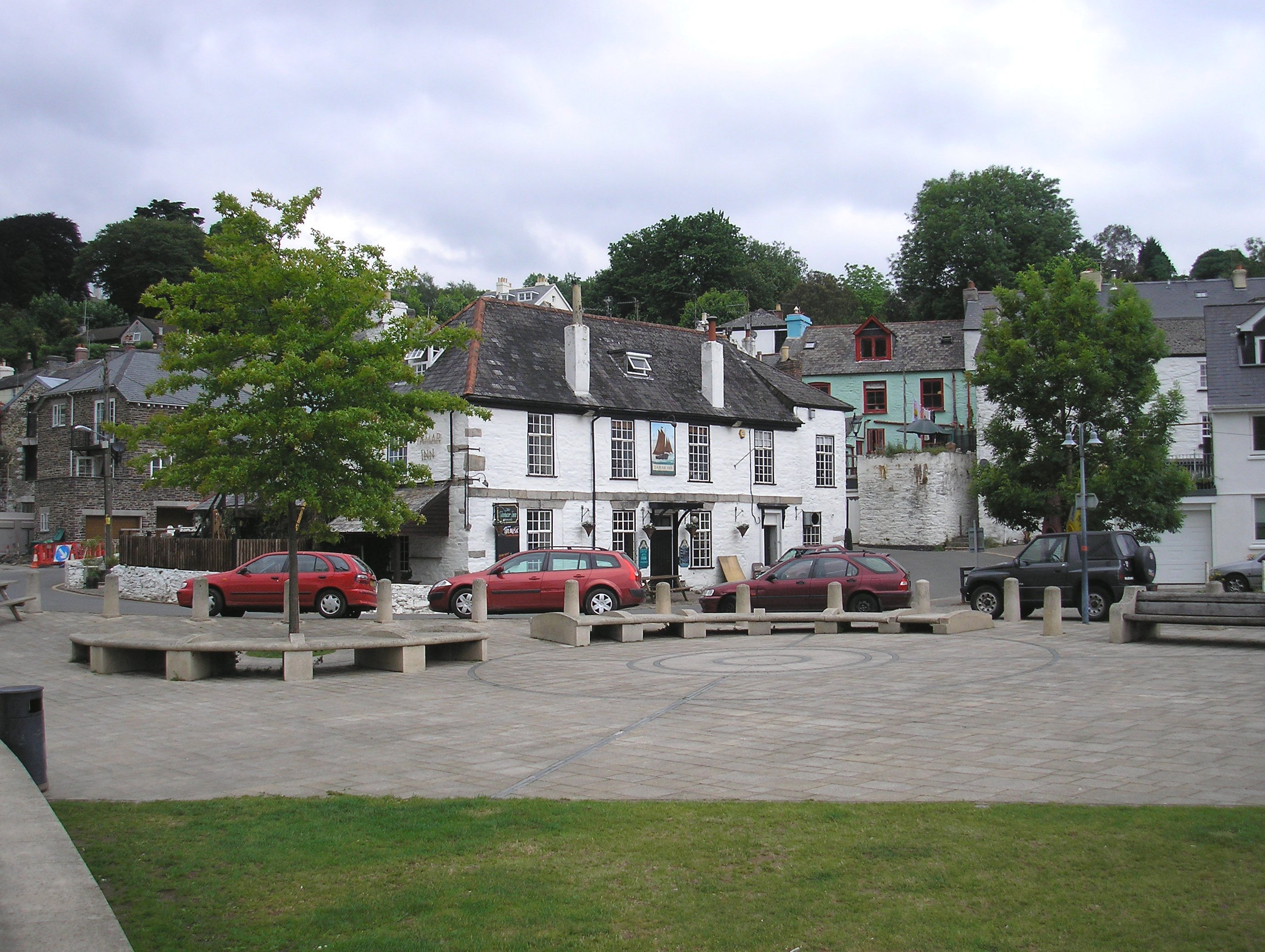 11th June 2010 a dull day just inside Cornwall. The Tamar Inn at Calstock a welcome sight. Camera: Olympus FE-120 6.0 Digital.